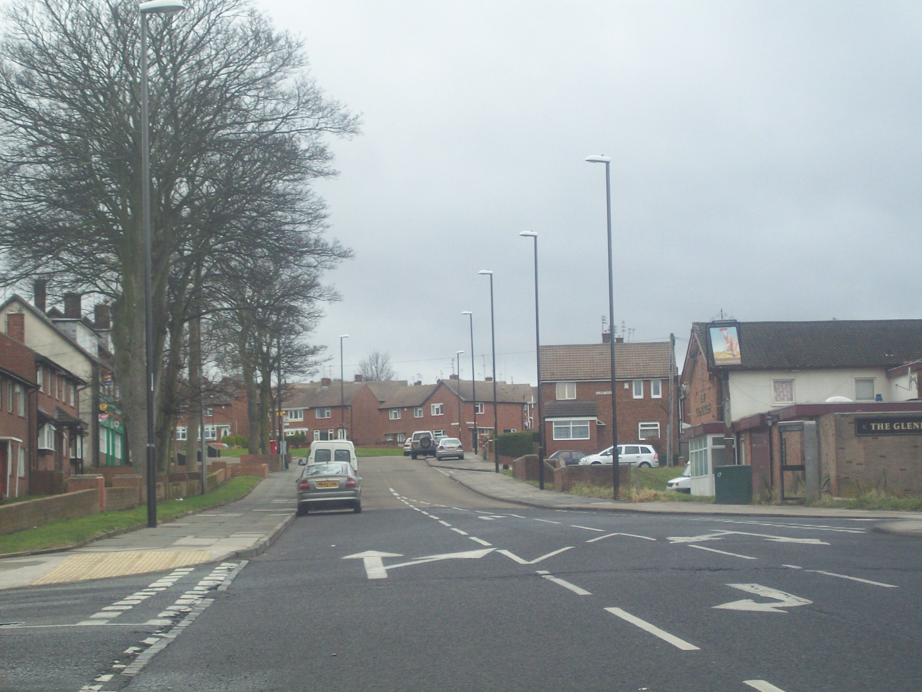 Grindon, Sunderland